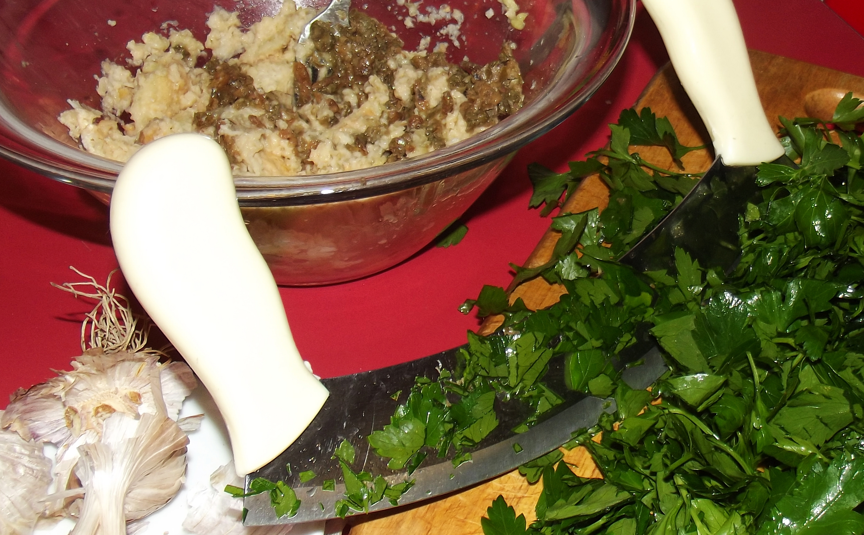 Bagnetto verde: persil cutting